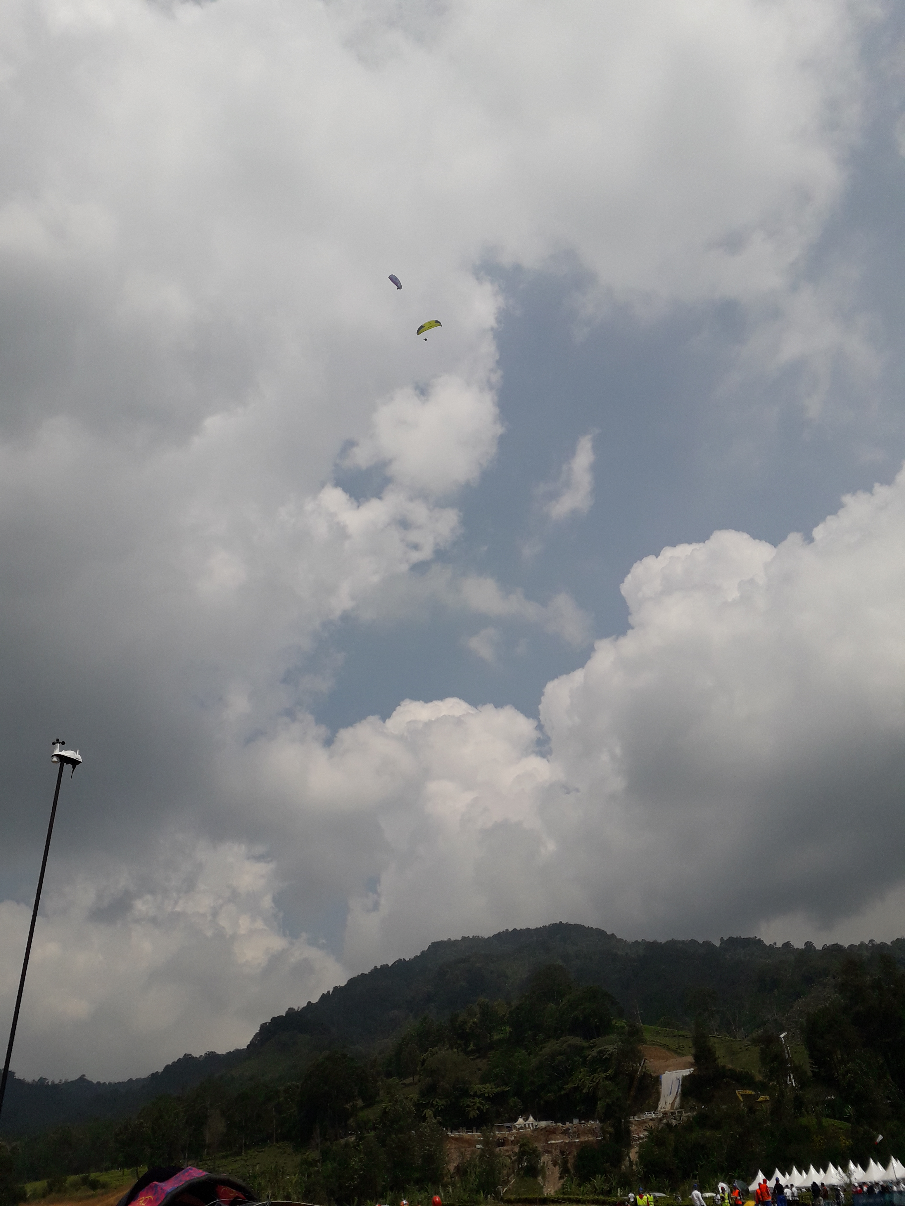 Paragliding competition of Asian Games 2018 held at Gunung Mas Tea Plantation, Puncak, Bogor Regency, West Java, Indonesia.